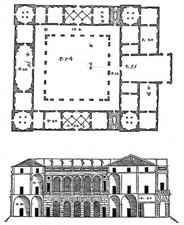 Palazzo Thiene in Vicenza built by Andrea Palladio. Drawing from I Quattro Libri dell'Architettura, 1570.